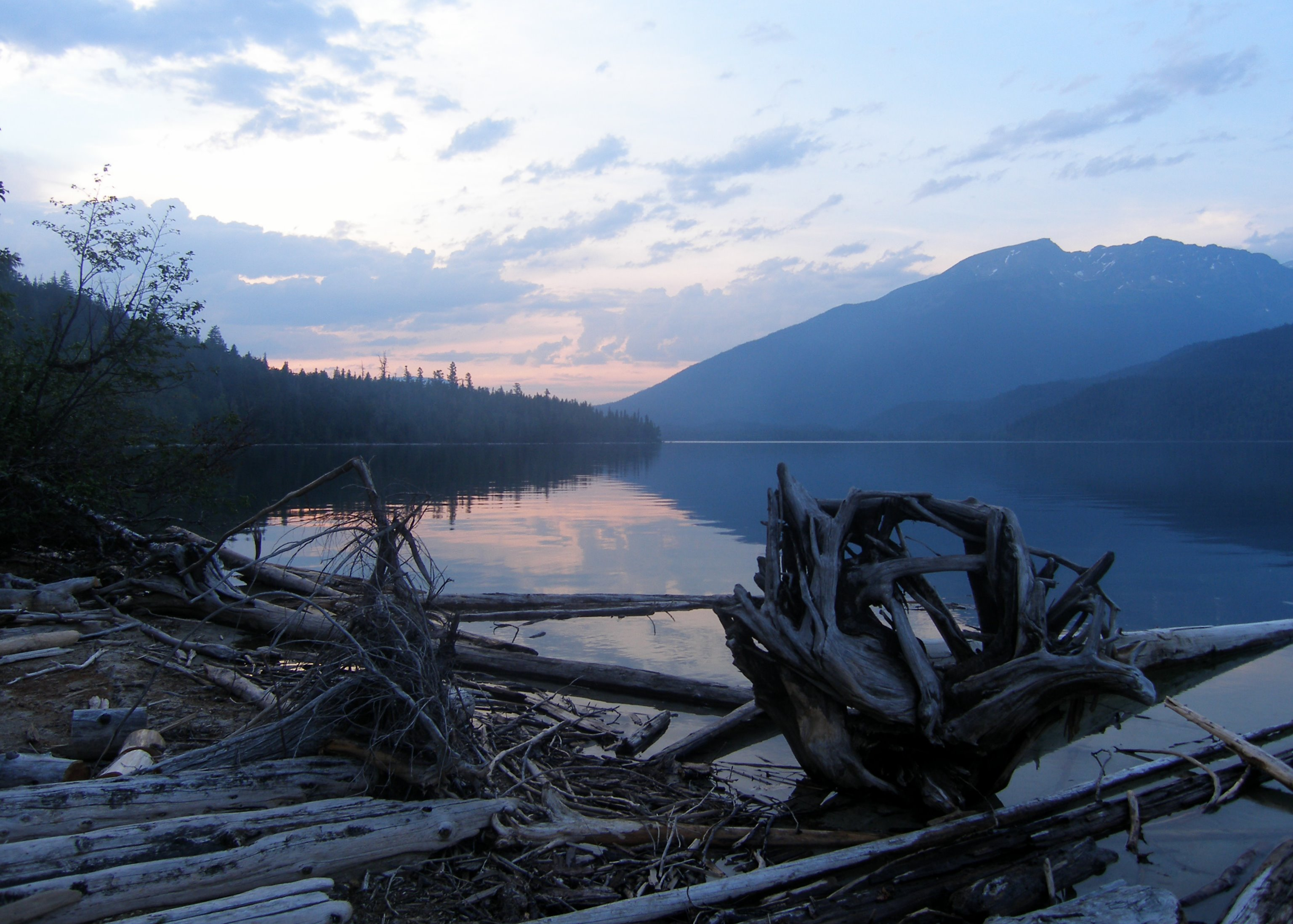 Clearwater Lake in Wells Gray Provincial Park, as seen from Huntley View campground. The mountain in the background is Mount Huntley.